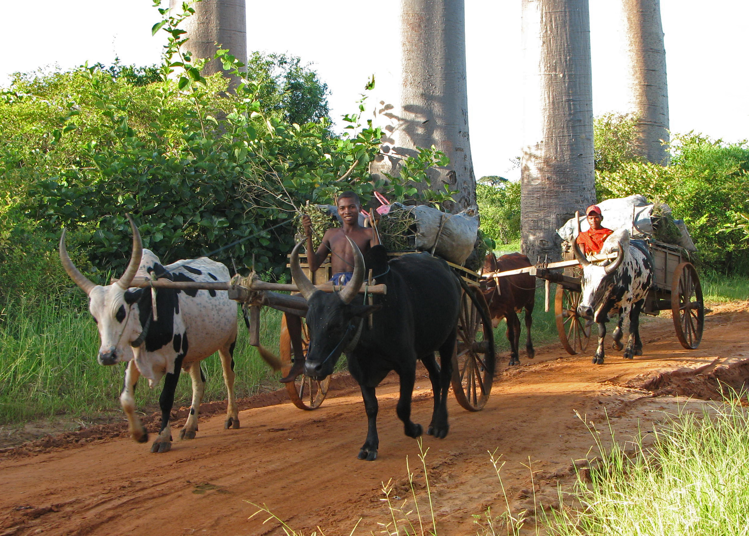 Ox carts, Madagascar